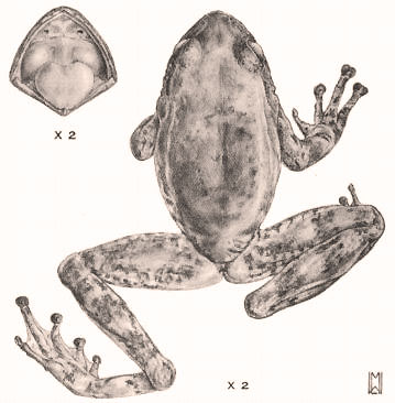 Cryptobatrachus boulengeri Ruthven, 1916. Original illustration from Ruthven, A. G. 1916. A new genus and species of amphibian of the family Cystignathidae. Occasional Papers of the Museum of Zoology, University of Michigan 33: 1–4.